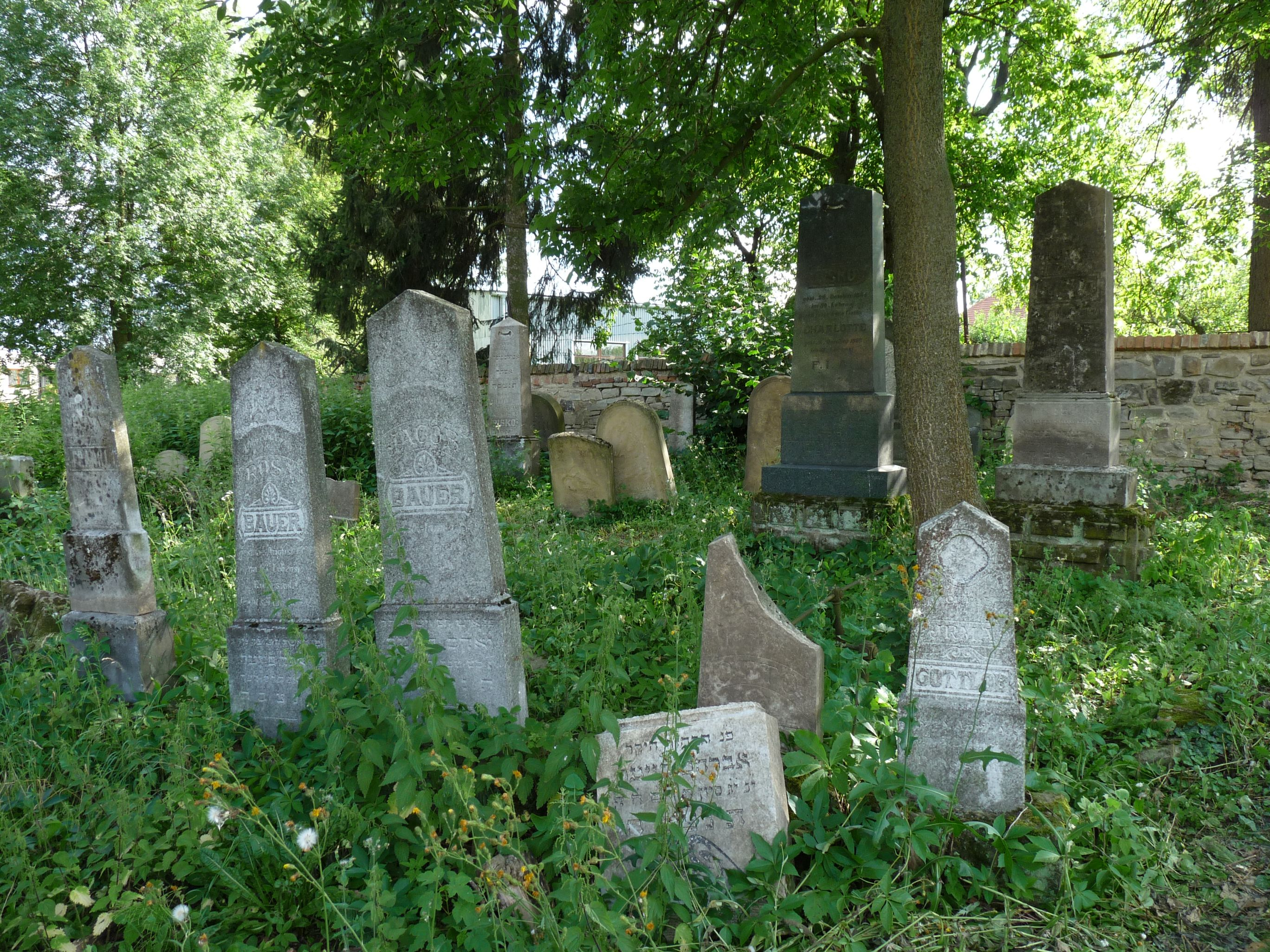 Jewish cemetery in the town of Rousínov, Vyškov District, Czech Republic. Česky: Židovský hřbitov ve městě Rousínov, okres Vyškov, Jihomoravský kraj.